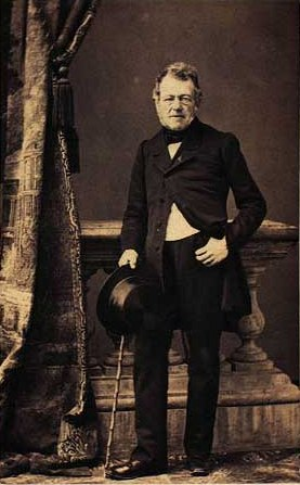 Christian Georg Nathan David (1793-1874), Finance Minister of Denmark, Director of the National Bank of Denmark